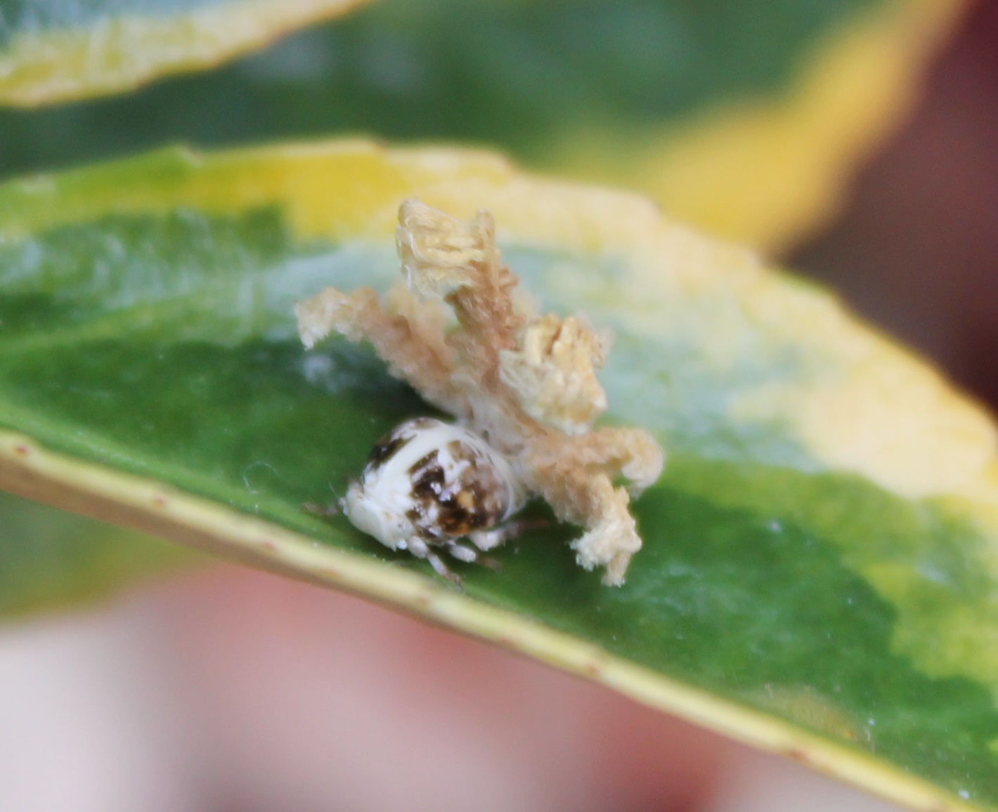 Nymph of Ricania speculum, photo taken in Sestri Levante, Liguria, Italy